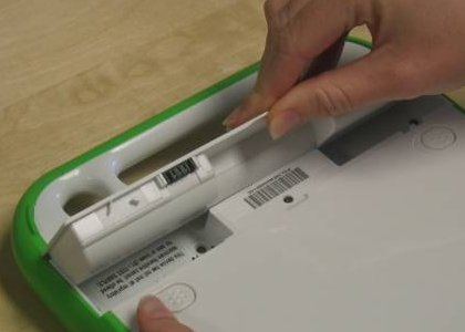 OLPC: Demonstration of how to insert the battery pack.